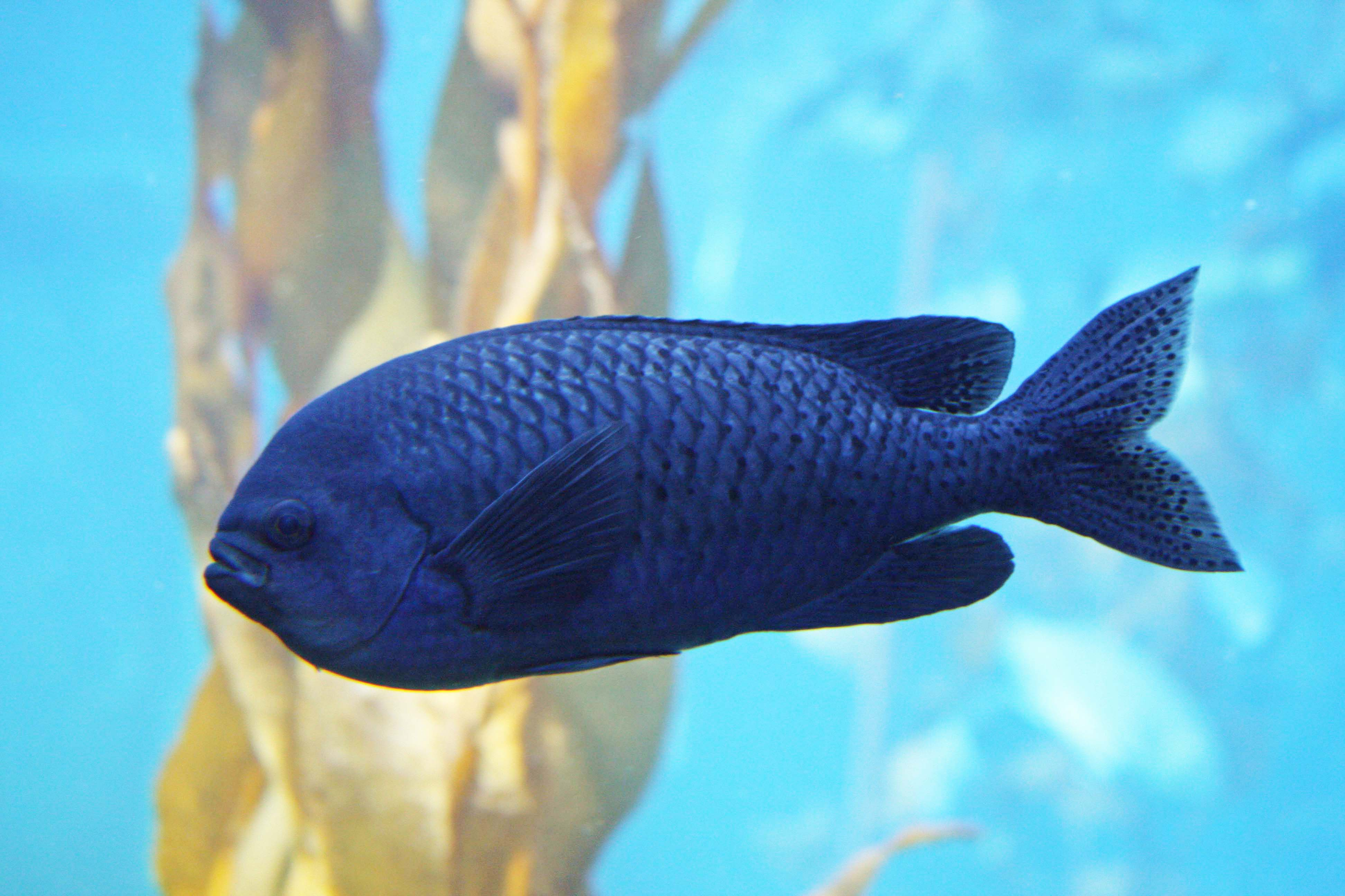 The blacksmith Chromis punctipinnis is a damselfish, and only rarely occurs in central California, usually during El Nino events.